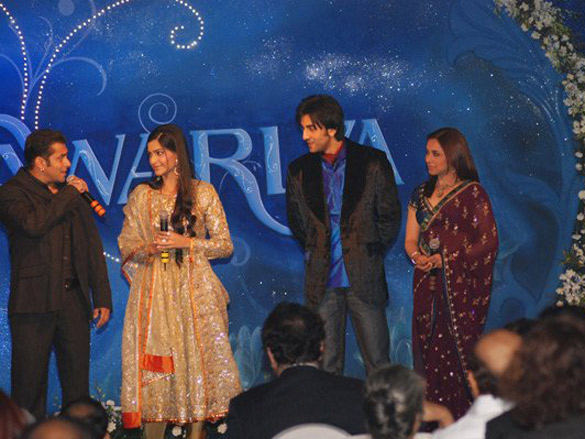 Salman Khan, Sonam Kapoor, Ranbir Kapoor and Rani Mukherjee at the audio release of Saawariya